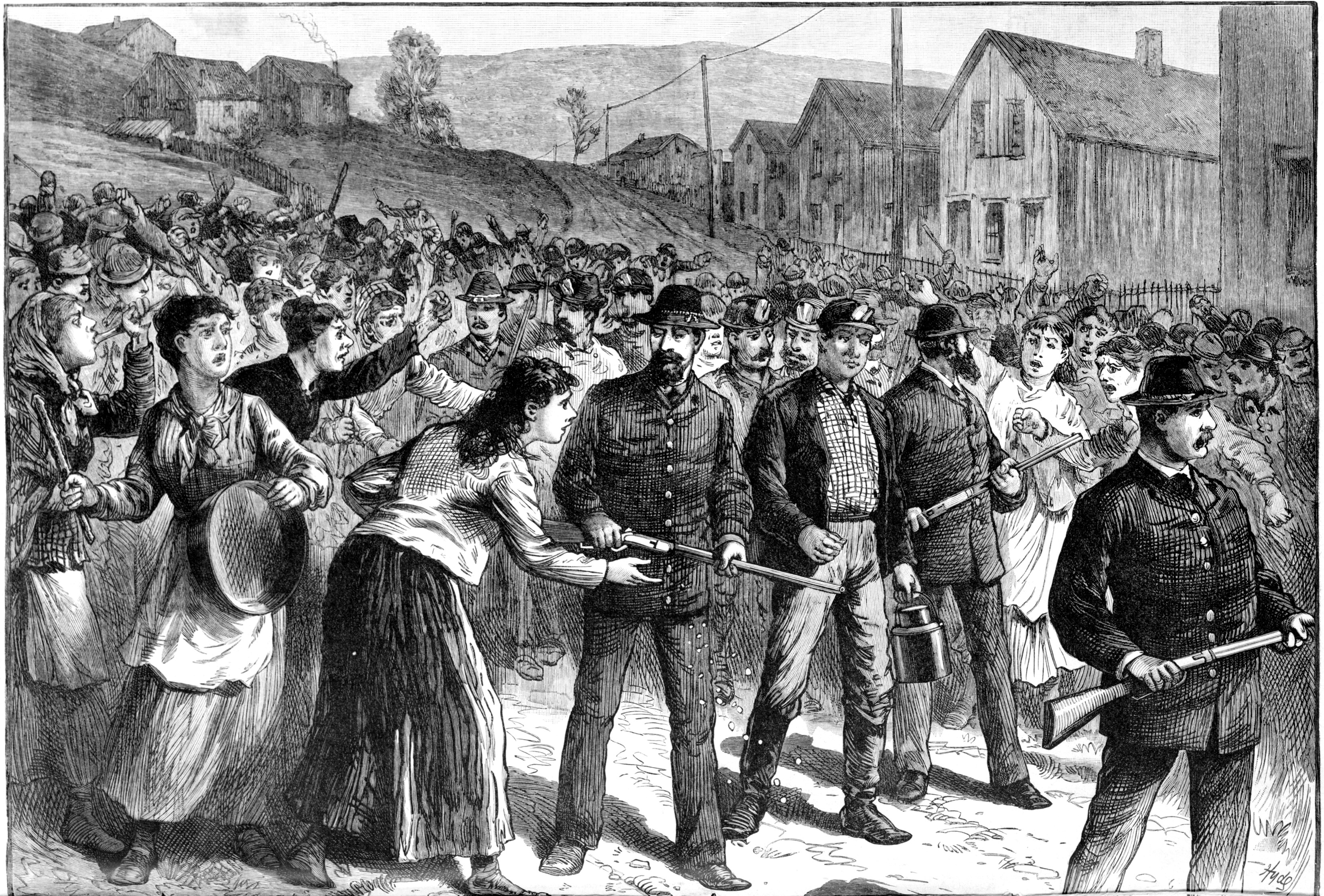 TITLE: Ohio - the mining troubles in Hocking Valley - scene in the town of Buchtel - the striking miners' reception of "Blackleg" workmen when returning from their work escorted by a detachment of Pinkerton's detectives / from a sketch by Joseph Becker ; Hyde. CALL NUMBER: Illus. in AP2.L52 1884 Case Y [P&P] REPRODUCTION NUMBER: LC-USZ62-118122 (b&w film copy neg.) MEDIUM: 1 print : wood engraving. CREATED/PUBLISHED: 1884. NOTES: Illus. in: Frank Leslie's illustrated newspaper, 1884 Oct. 25, p. 152. SUBJECTS: Pinkerton's National Detective Agency--People--1880-1890. Miners' strikes--Ohio--Buchtel--1880-1890. Miners--Ohio--Buchtel--1880-1890. Strikebreakers--Ohio--Buchtel--1880-1890. FORMAT: Periodical illustrations 1880-1890. Wood engravings 1880-1890. REPOSITORY: Library of Congress Prints and Photographs Division Washington, D.C. 20540 USA DIGITAL ID: (b&w film copy neg.) cph 3c18122 CARD #: 97512282